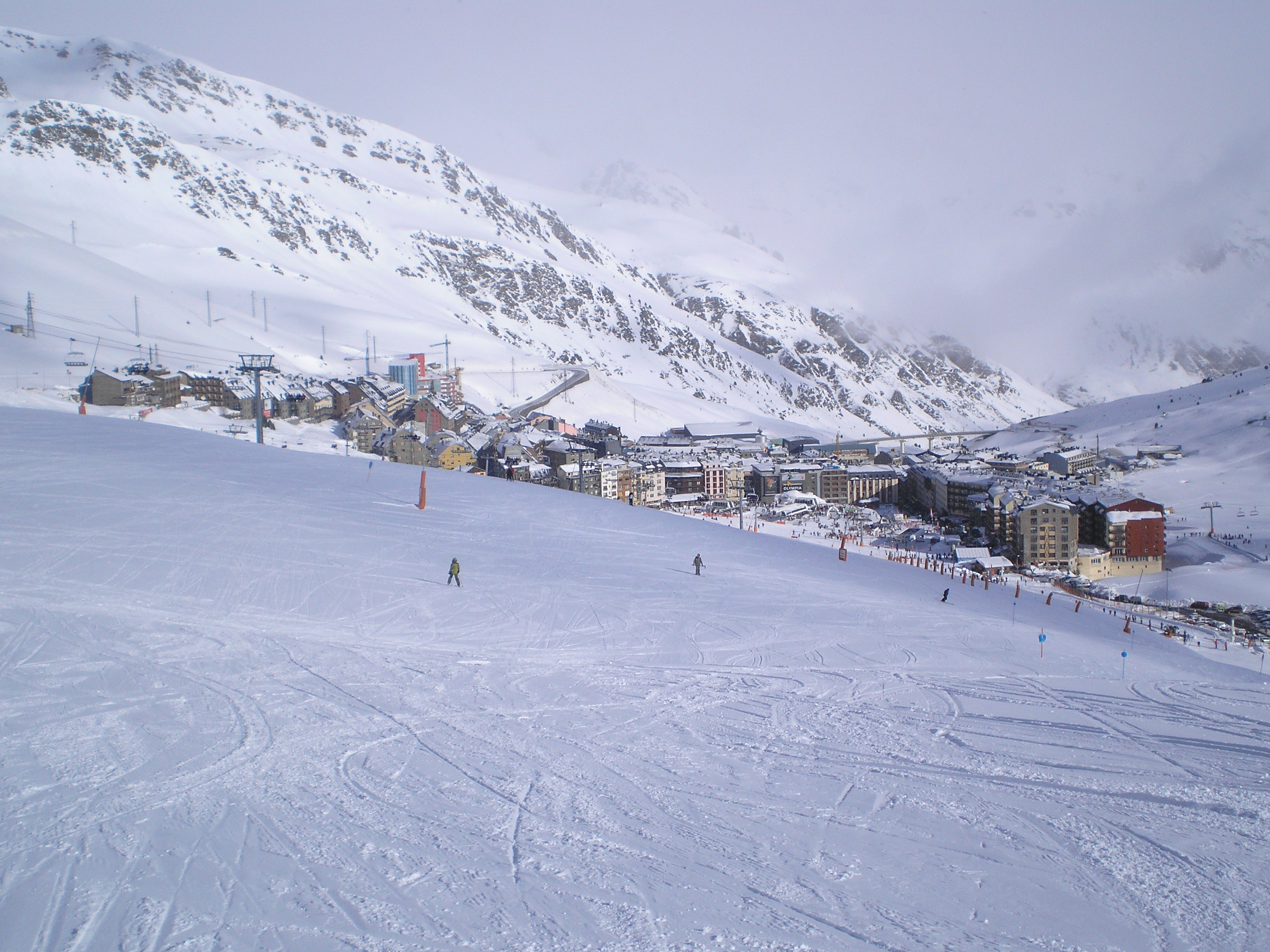 Pas de la Casa, in Andorra. View from near summit of Pic d'Envalira.